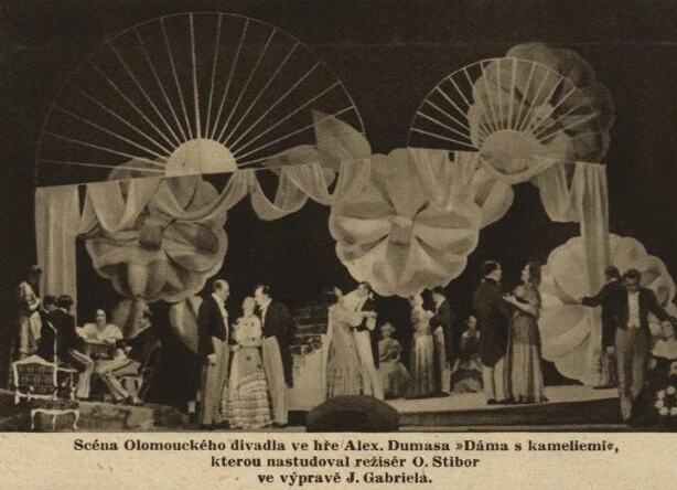 Oldřich Stibor, director, Olomouc, La Dame aux Camélias, 1937